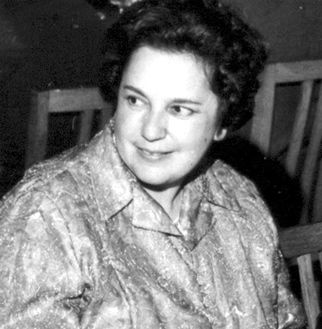 portrait of Eva Frommer